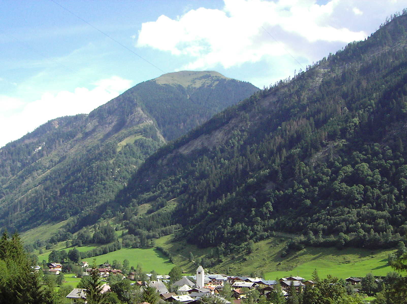 View Over The Municipality Fusch On Highway Großglockner-Hochalpenstraße (from Southwest), Langweidkogel, 2000 m, Salzburger Land - Austria